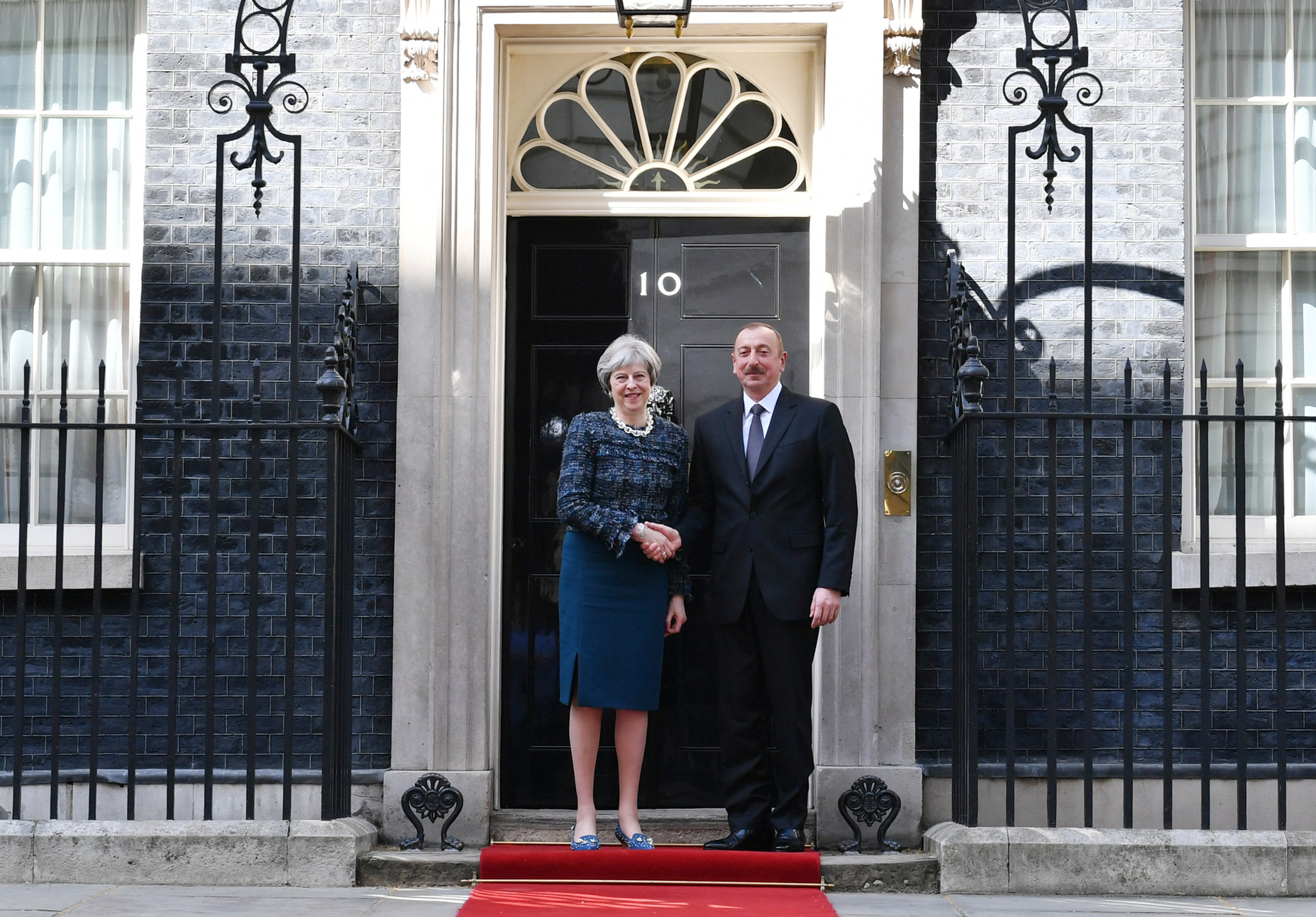 President of the Republic of Azerbaijan Ilham Aliyev has met with Prime Minister of the United Kingdom of Great Britain and Northern Ireland Theresa May in London.